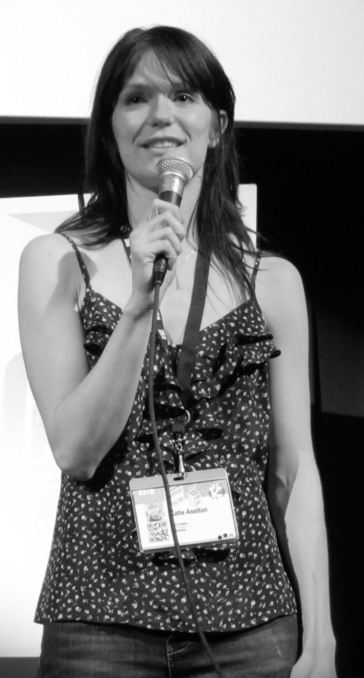 SXSW film fest March 13, 2010, Austin, TX Katie Aselton introduces her debut directorial feature film "The Freebie".